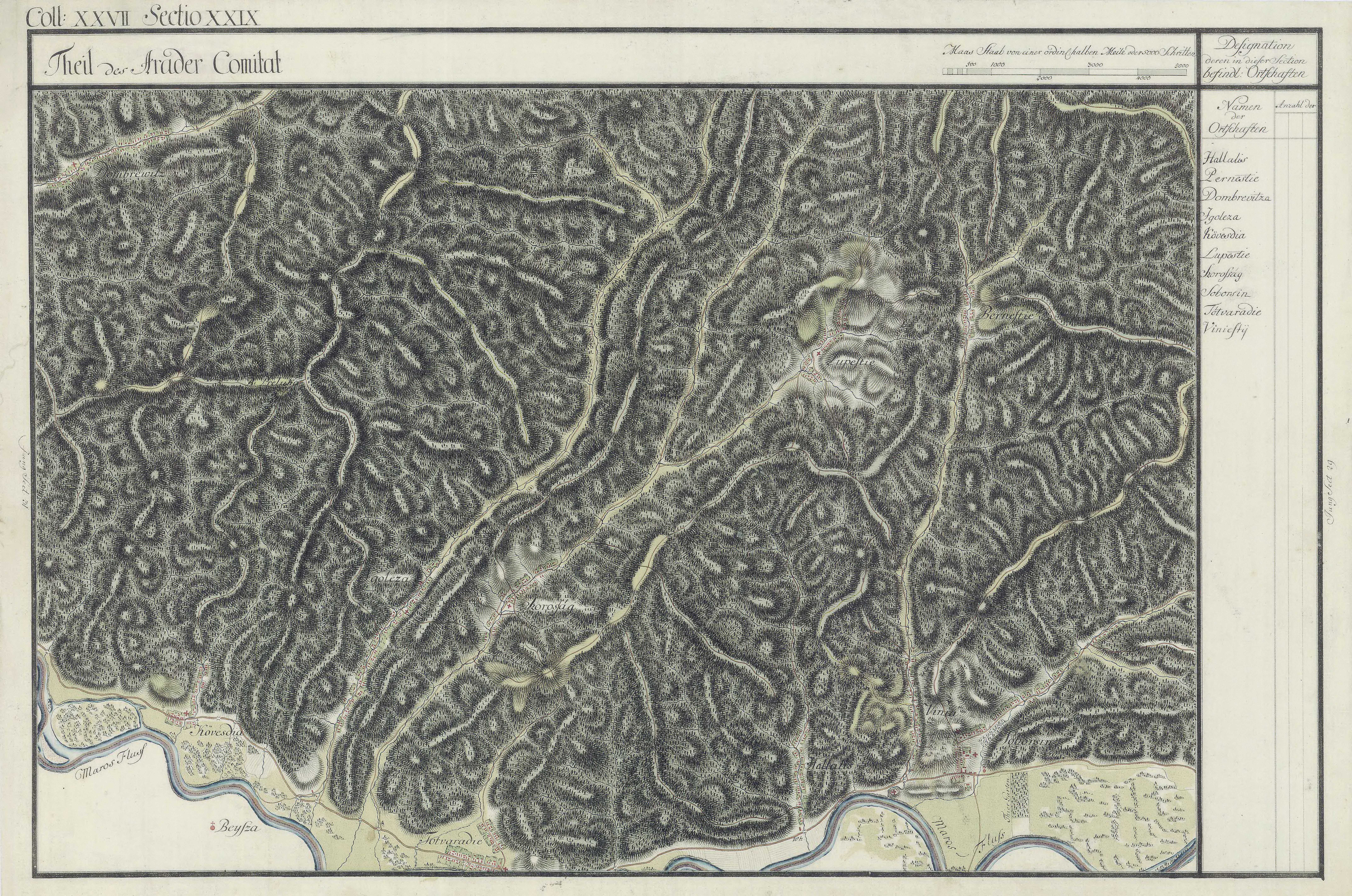 Arad County, 1782-85. Josephinische Landesaufnahme pg.27-29